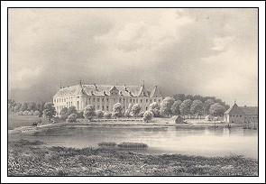 Gaunø or Gavnø Manor, Denmark